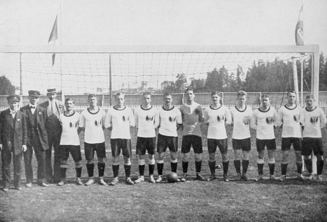 Austria national football team at the 1912 Summer Olympics